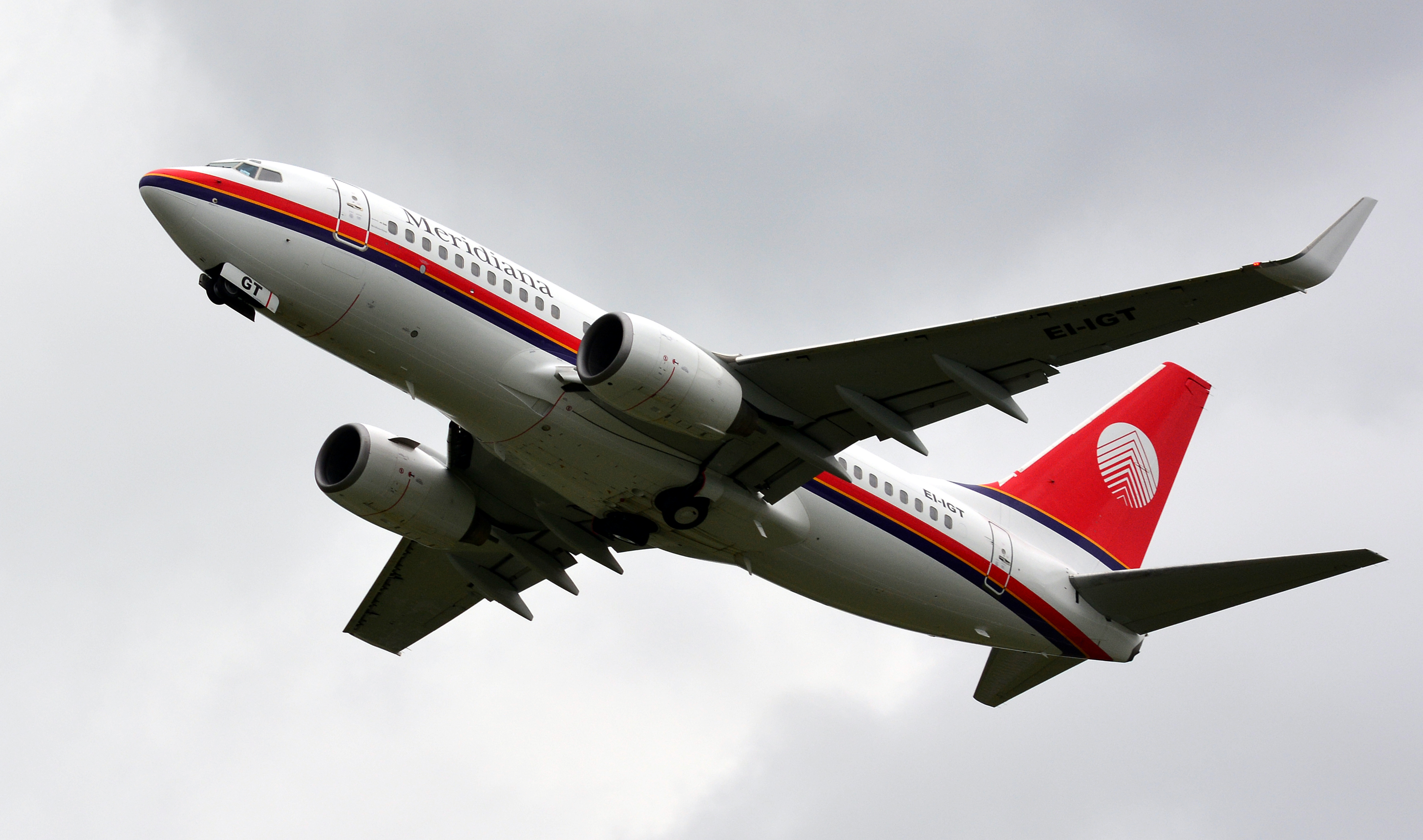 EI-IGT c/n 32421 l/n 1357. Built in 2003 and delivered to Easyjet as G-EZJZ. Ex Air Italy